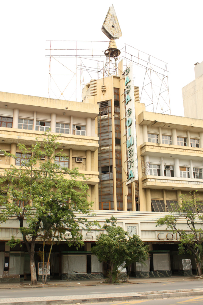 "Coimbra House" in Avenida 25 de Setembro, Maputo, Moçambique